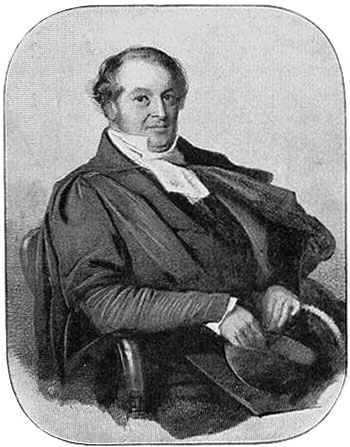 Picture of Baden Powell (mathematician), Father of Robert Baden-Powell, 1st Baron Baden-Powell